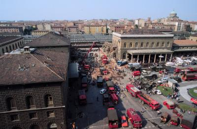 Bombing at Bologna: August 2nd 1980